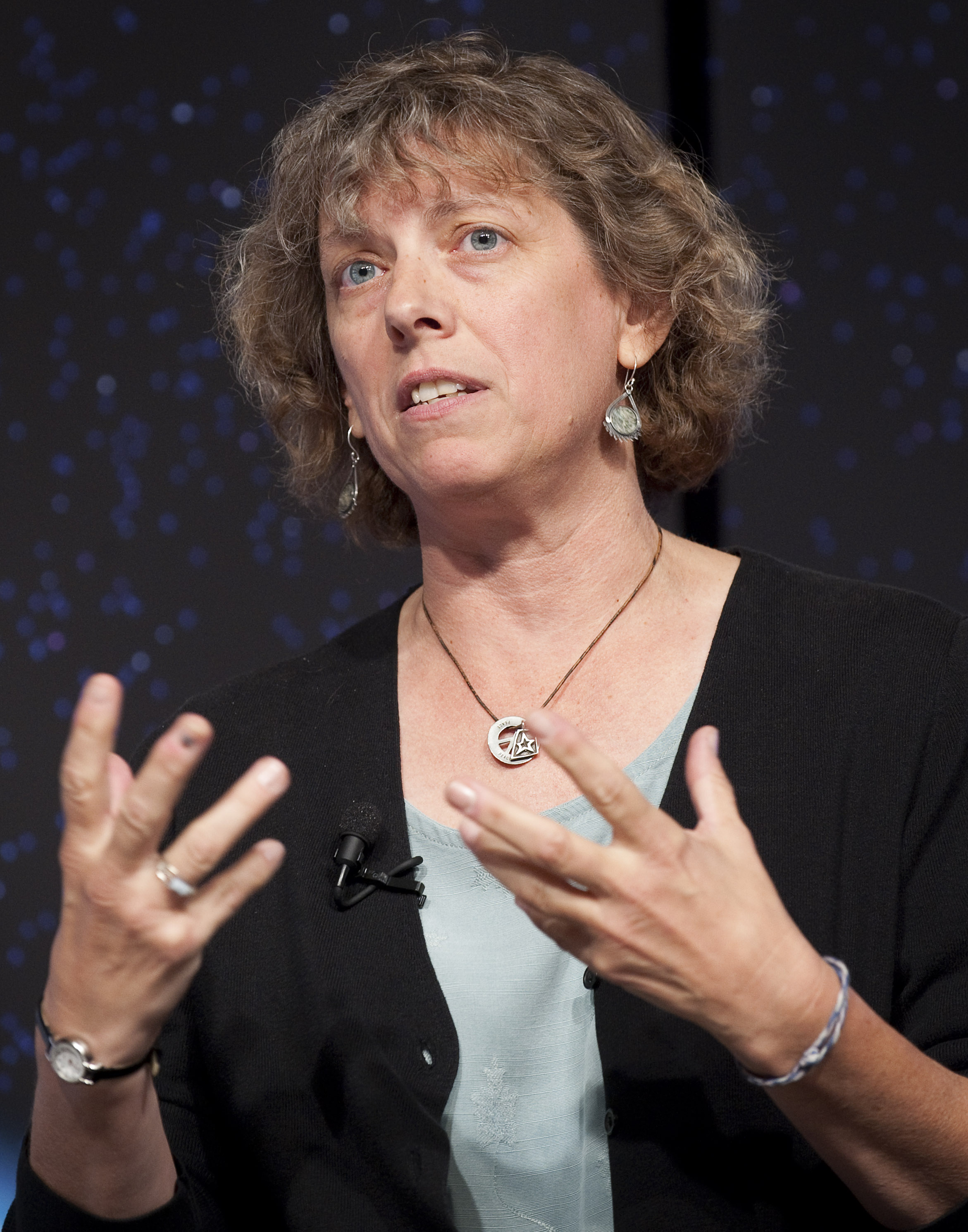 Heidi Hammel, senior research scientist at the Space Science Institute in Boulder, Colorado discusses newly released images from NASA's Hubble Space Telescope Wednesday, Sept. 9, 2009 at NASA Headquarters in Washington. The images were from four of the telescopes' six operating science instruments. Photo Credit: (NASA/Bill Ingalls)